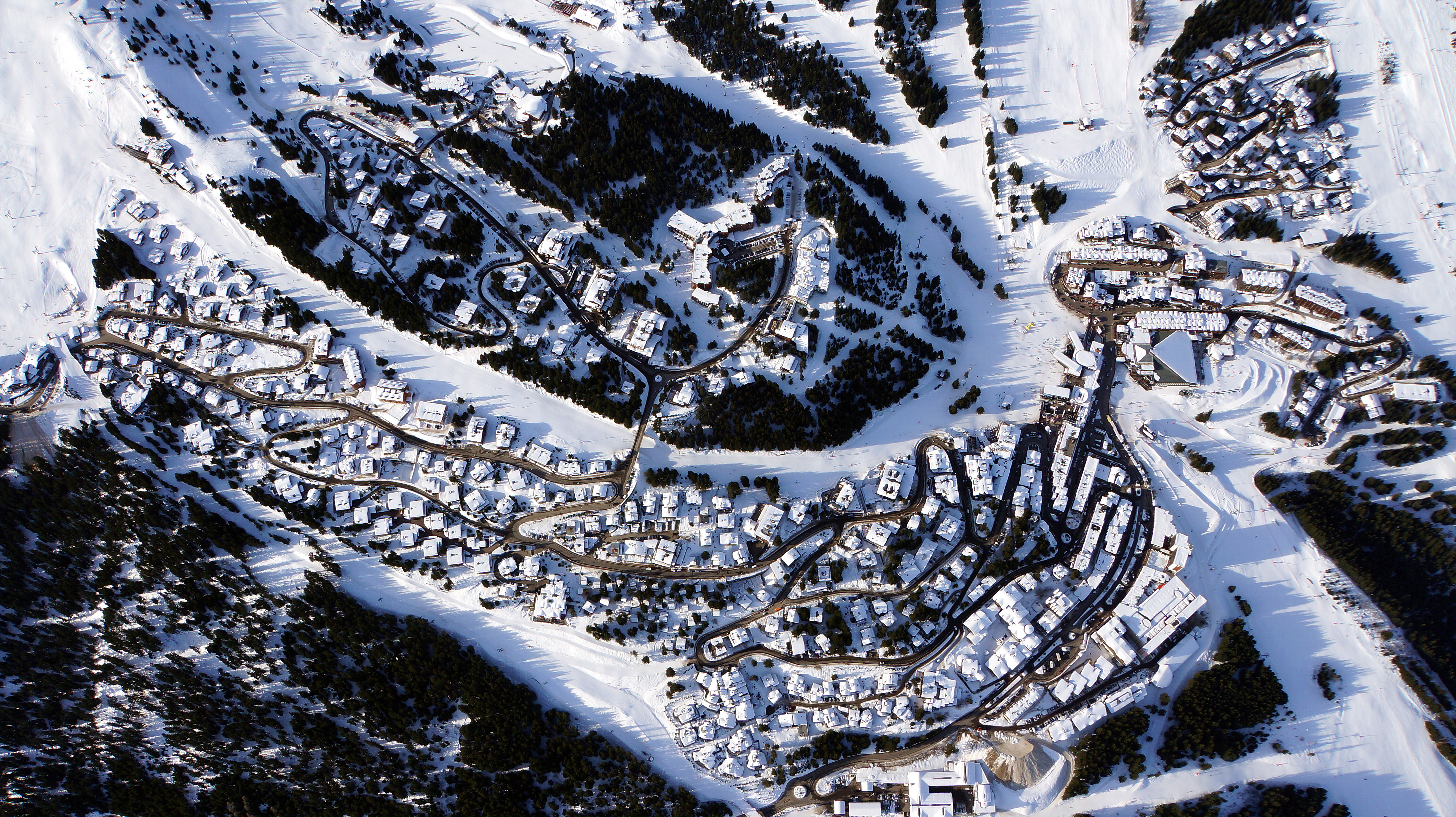 Courchevel 1850 shot from the ballon